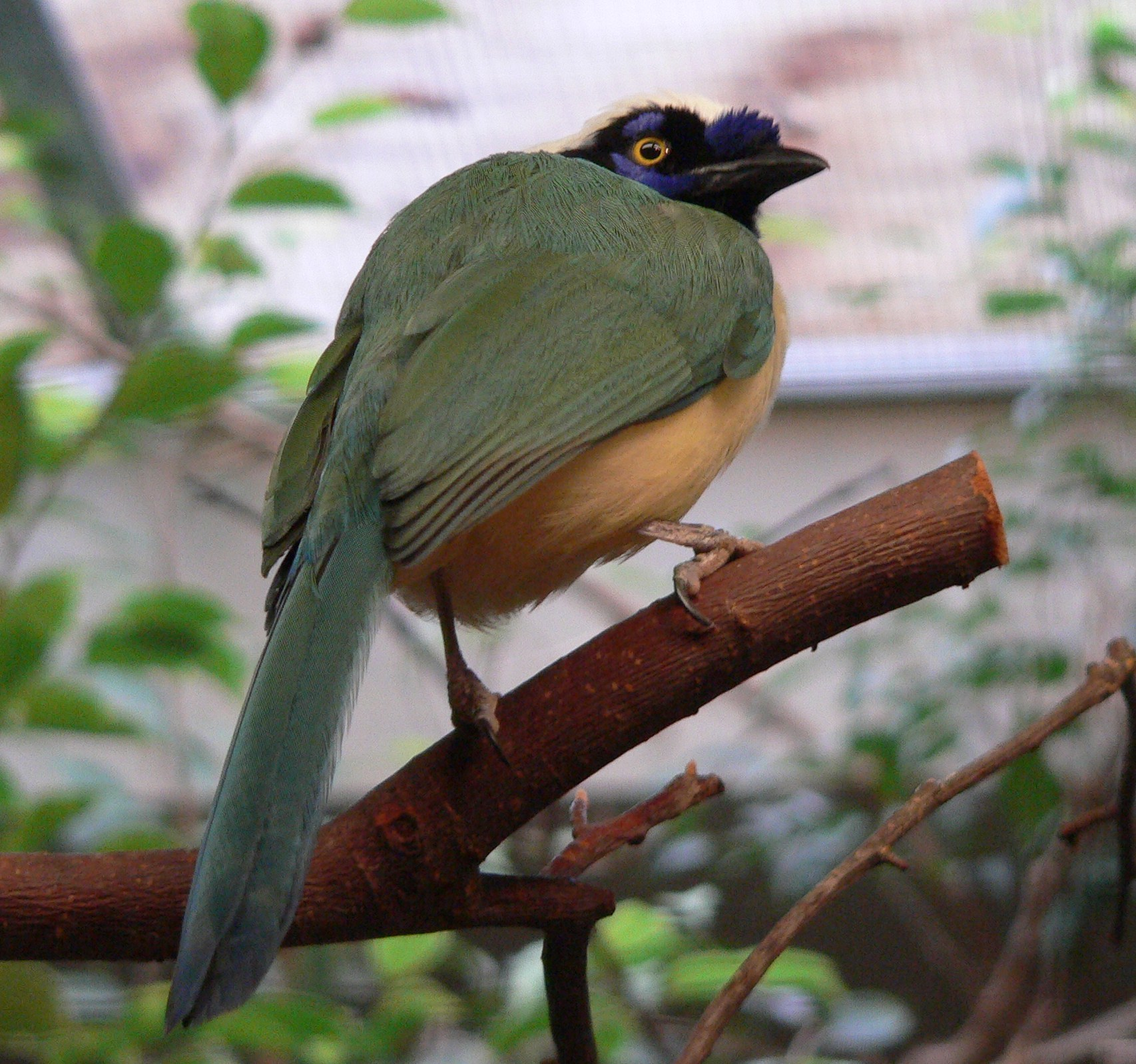 Inca Jay Cyanocorax yncas